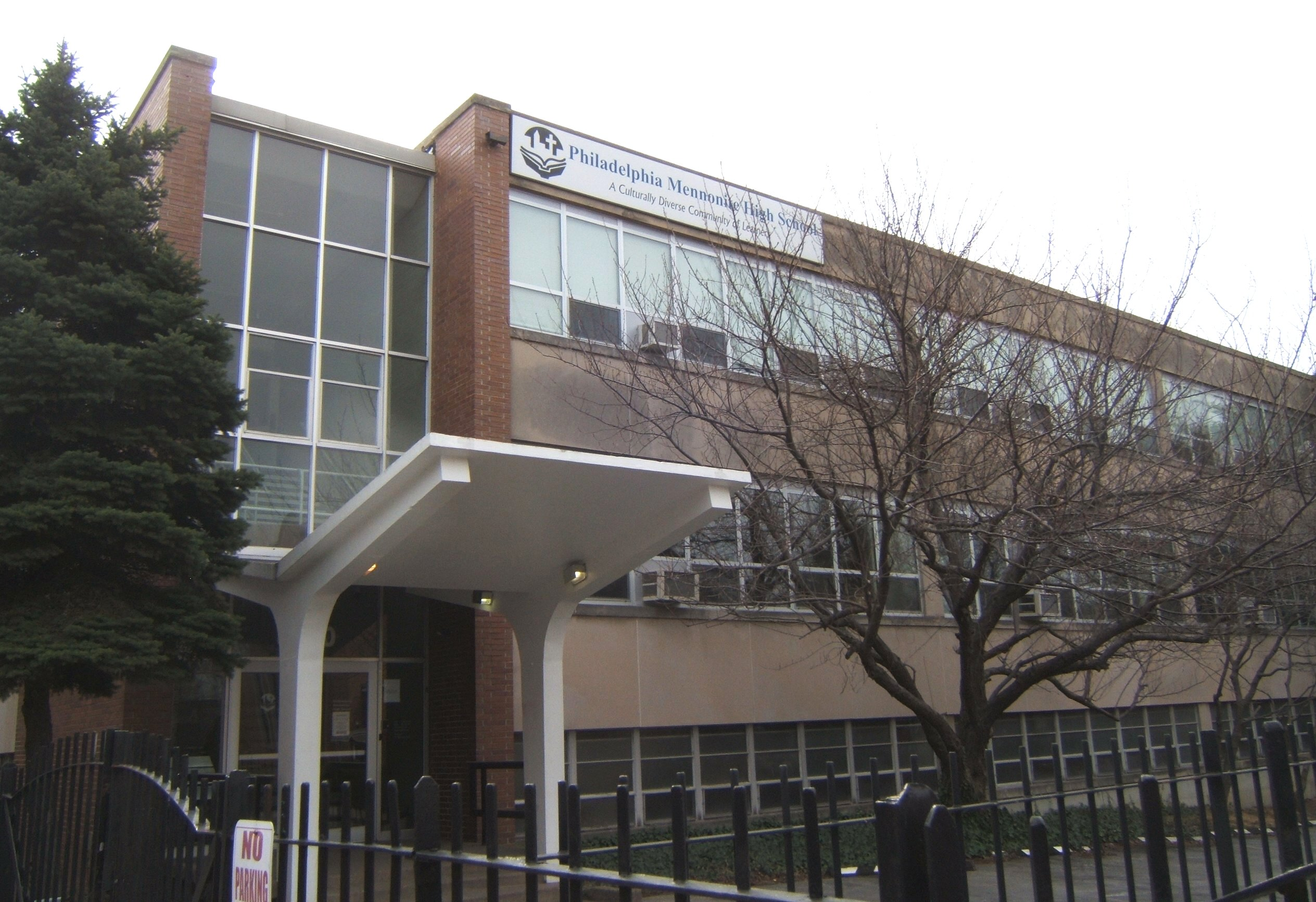 Philadelphia Mennonite High School (PMHS), 860 North 24th Street, Philadelphia, PA 19130. Founded 1991, building 1961 formerly a Ukrainian parochial school.